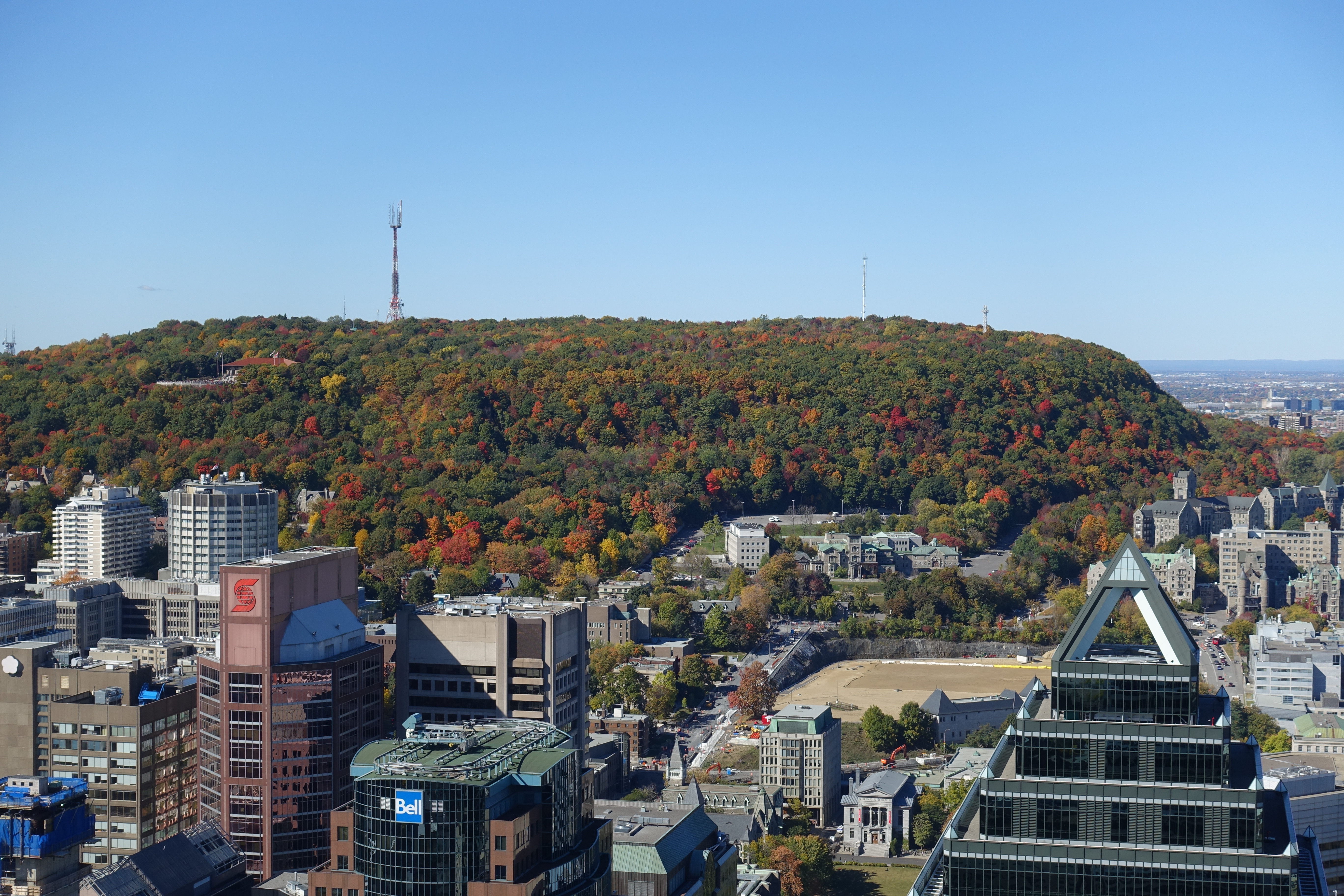 Mount Royal @ Observatory @ Au Sommet Place Ville-Marie @ Montreal